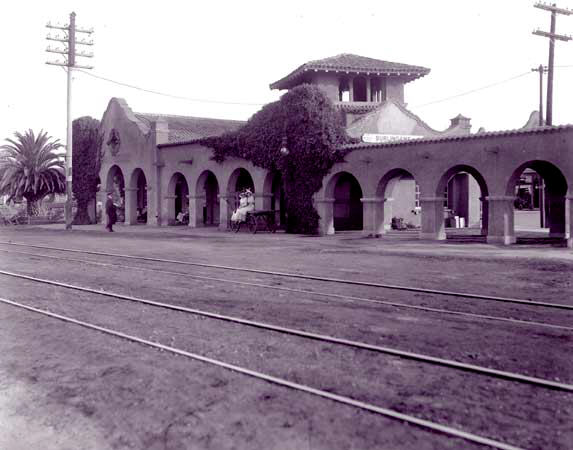 The Southern Pacific Railroad depot in Burlingame, California. The source gives the date as circa 1900, but the presence of the arcade dates the photo to after 1909.